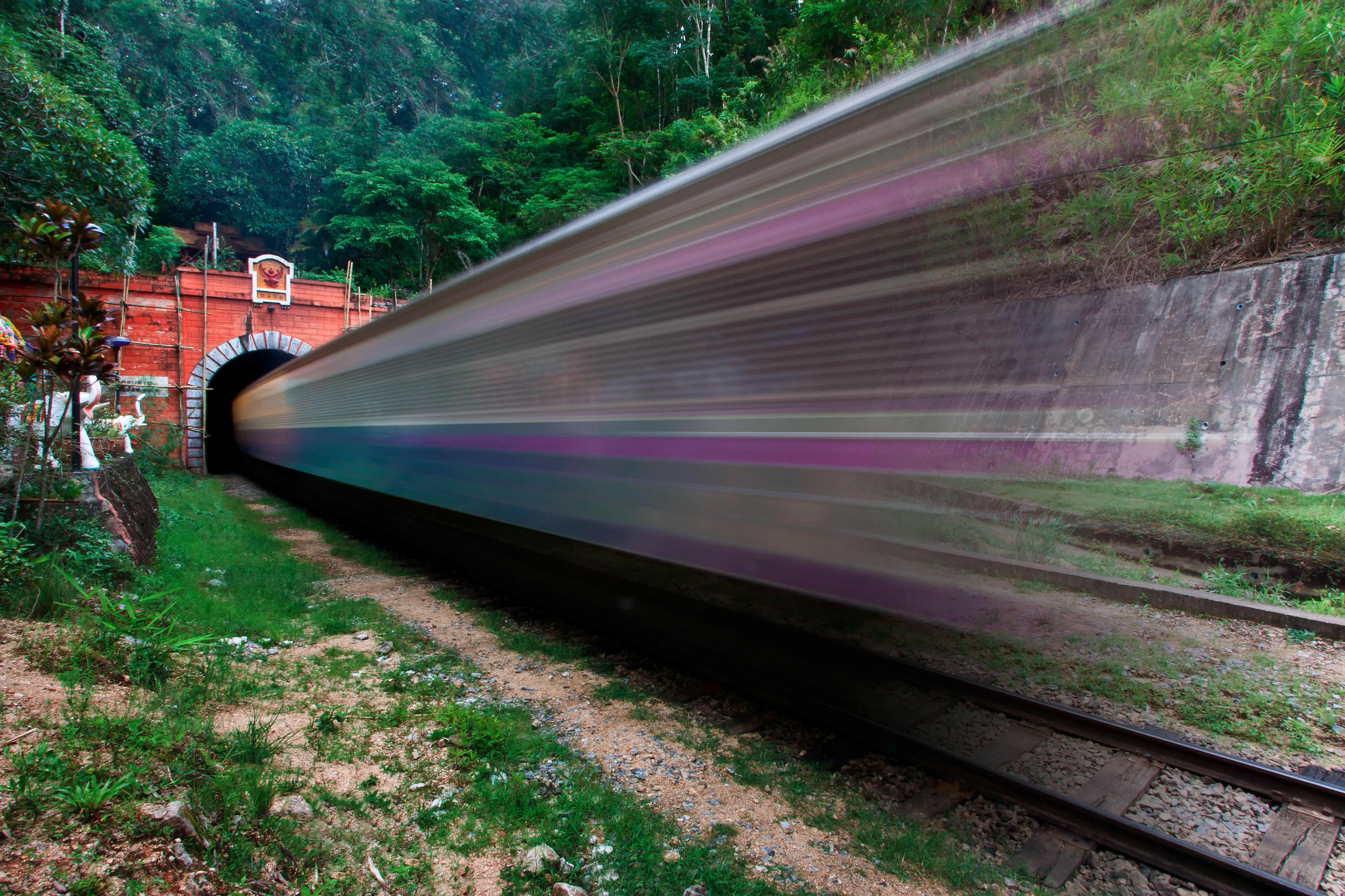 อุโมงค์ขุนตาน